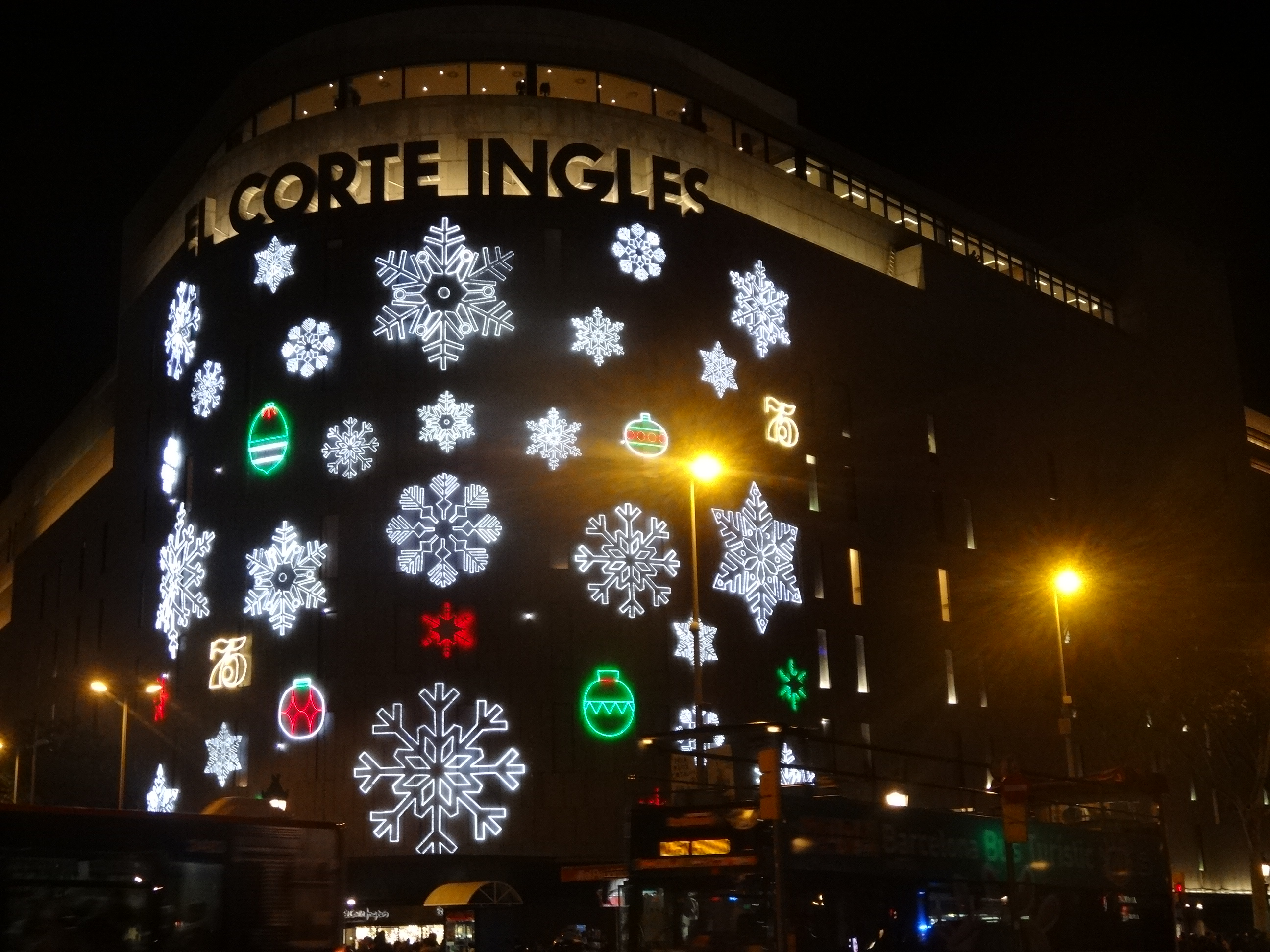 December 2016 in Barcelona. Christmas lights.